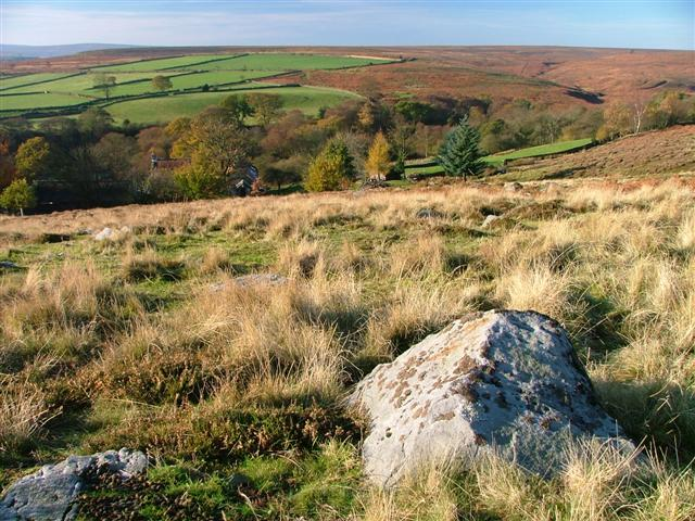 View from Pannierman's Causeway above Rosedale Intake. View west from the approximate position where the Public Bridleway known as the Pannierman's Causeway should be. But there is no sign on it. The actual path from Rosedale Intake cottage is marked with posts and climbs to the north of the spring (50m to the photographer's right). So either the Ordnance Survey are wrong or the path has been diverted. I suspect the latter as the Public Bridleway is mapped as being much closer to the cottage. Need to see the definitive maps.